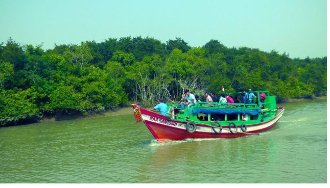 Boating at Bhitarkanika